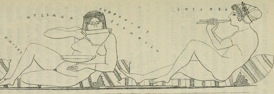 Drawing from Greek psykter painted by Euphronios, Hermitage 644: right side